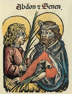 This is a part of a scan of an historical document: Title: Schedelsche Weltchronik or Nuremberg Chronicle